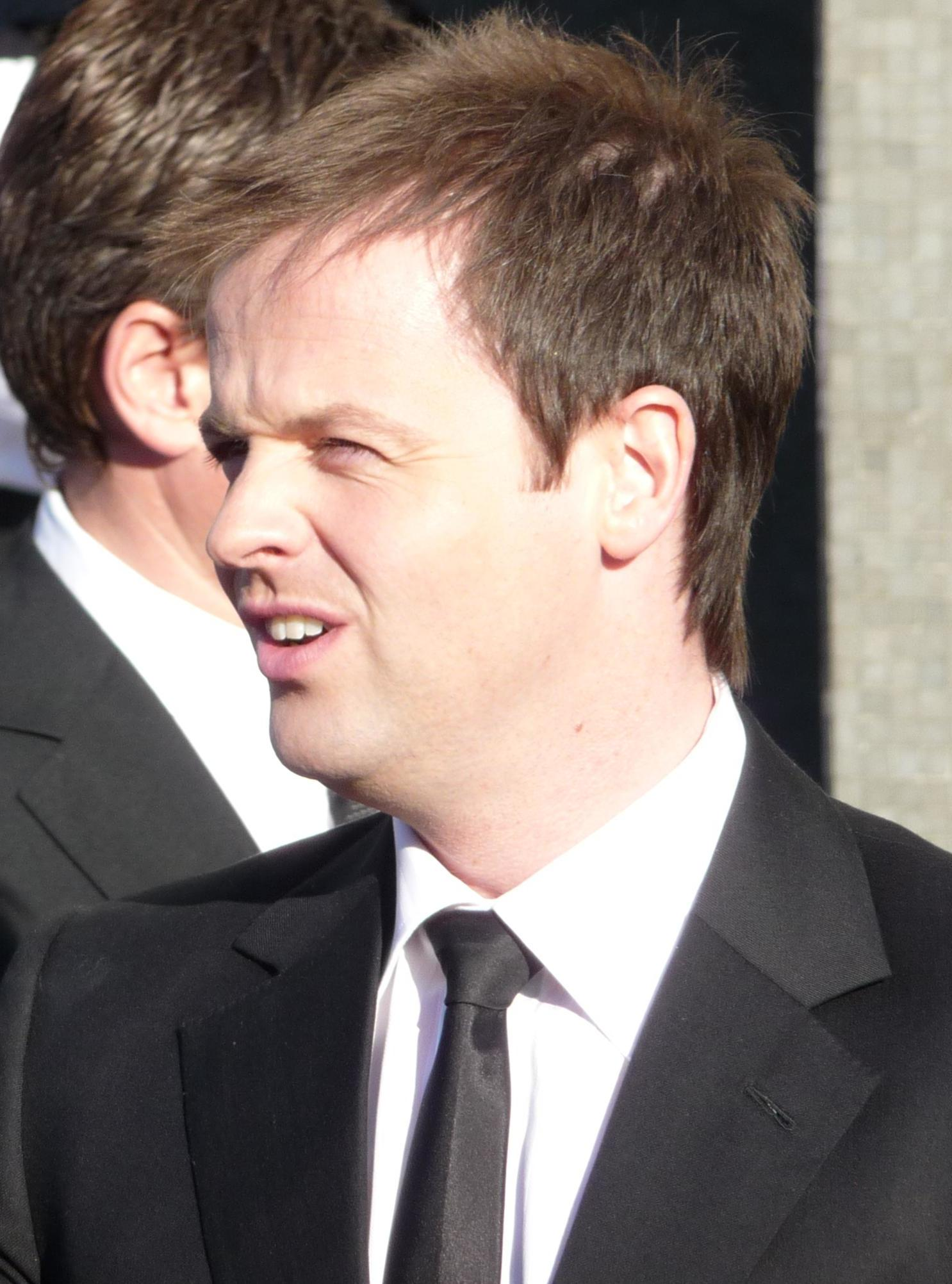 Declan Donnelly at the 2009 BAFTAs